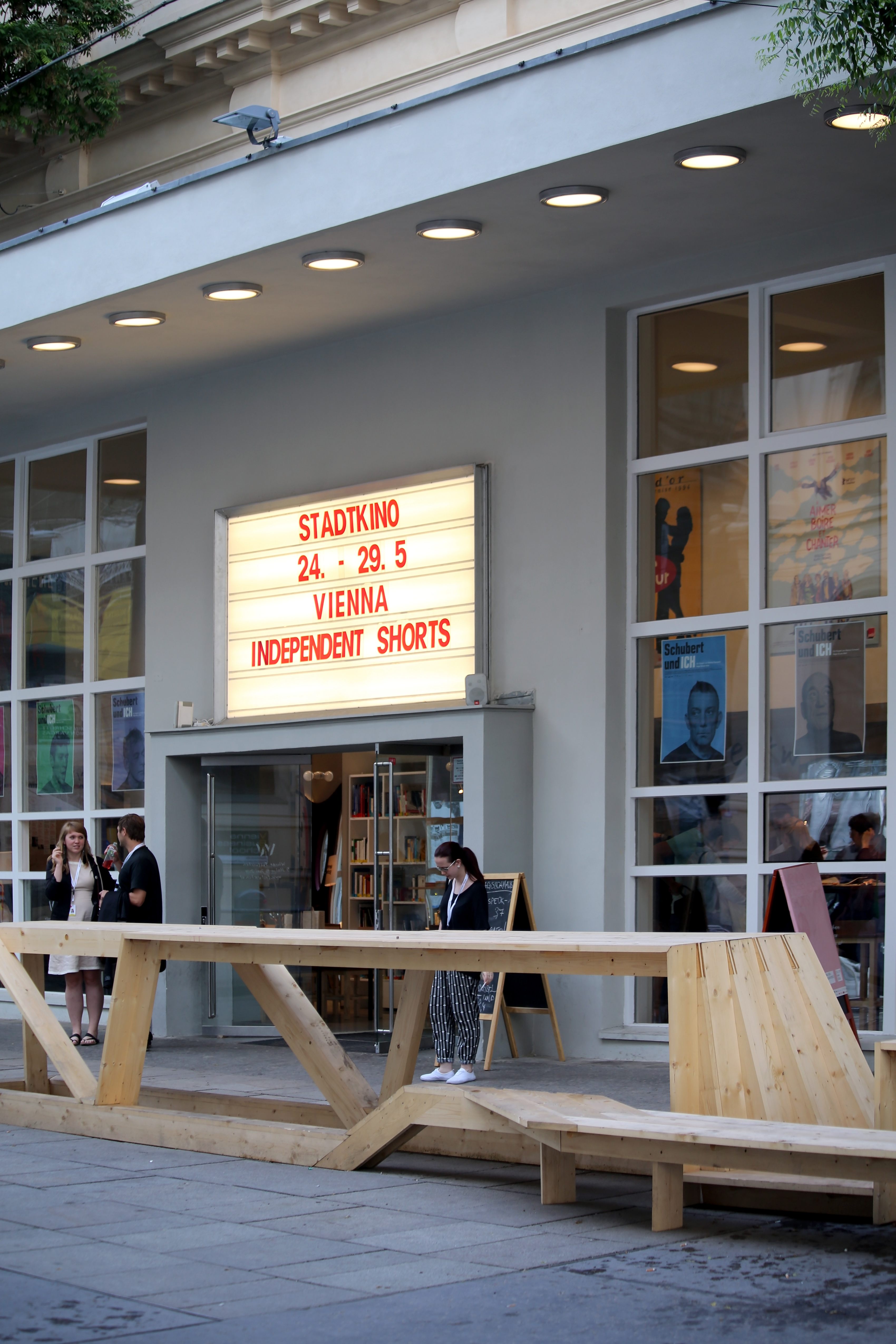 Stadtkino at Vienna Künstlerhaus, in May 2014 at the center of the film festival Vienna Independent Shorts (Vienna, Austria).